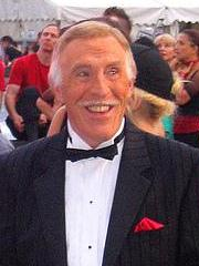 Cropped pic of original pic released into public domain by author but then cropped by SqueakBox because of privacy concerns of others in the picture